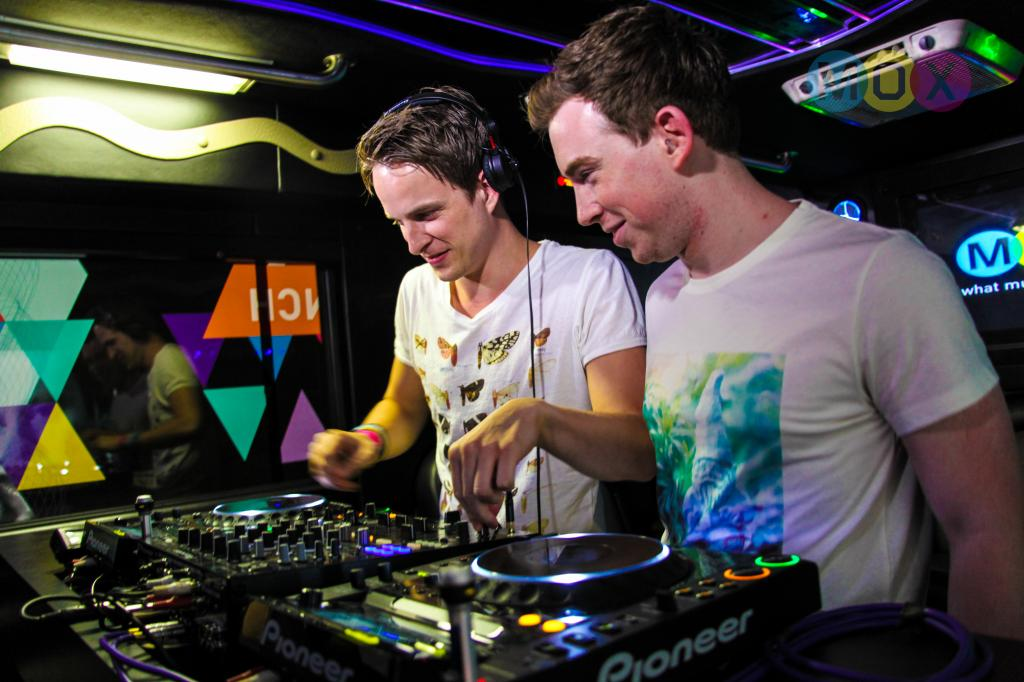 Hardway and Dannic play at the Revealed Bus Party